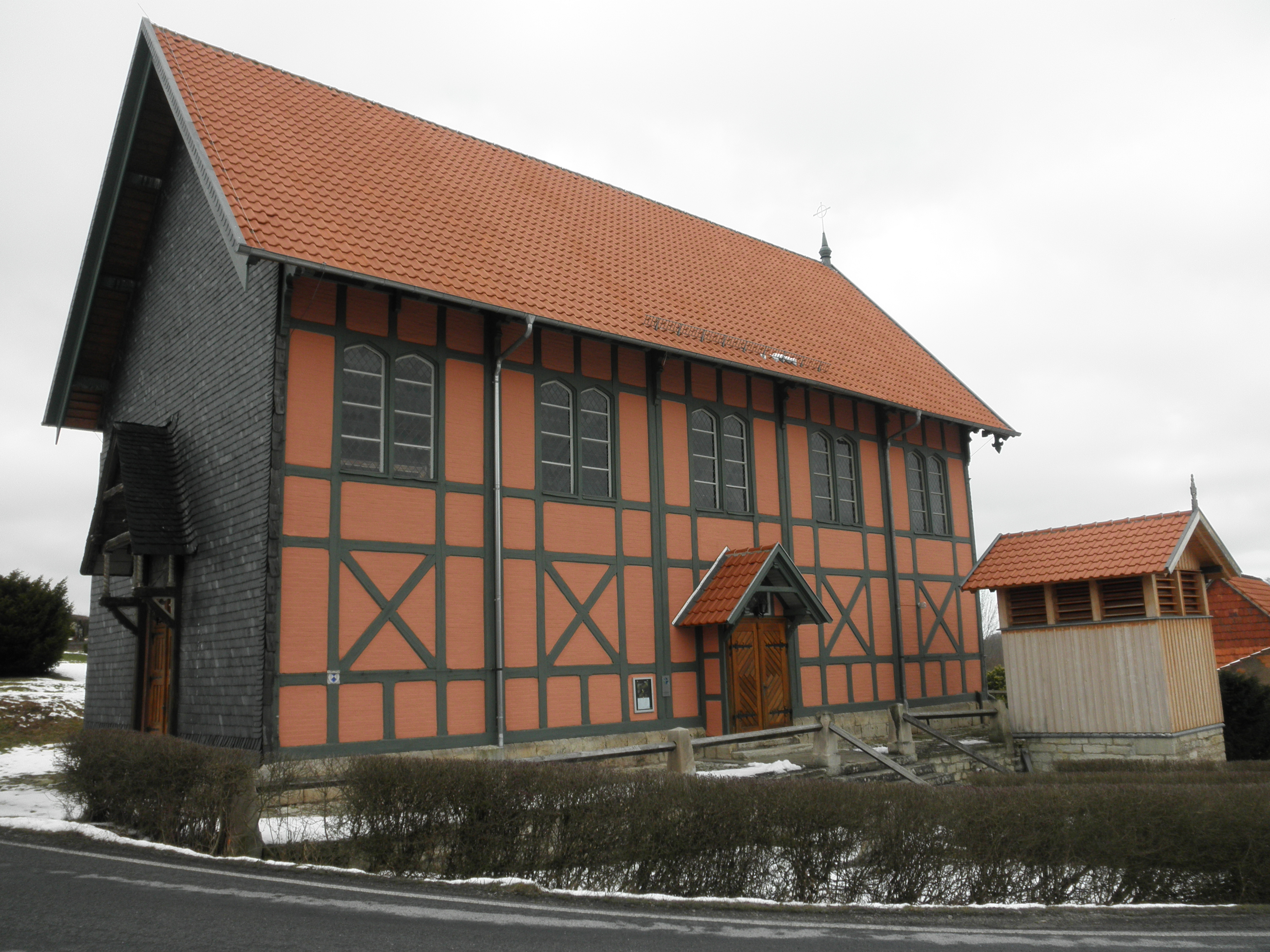 Lutherian Bonifatius Church in Friedrichslohra (Großlohra) in Thuringia